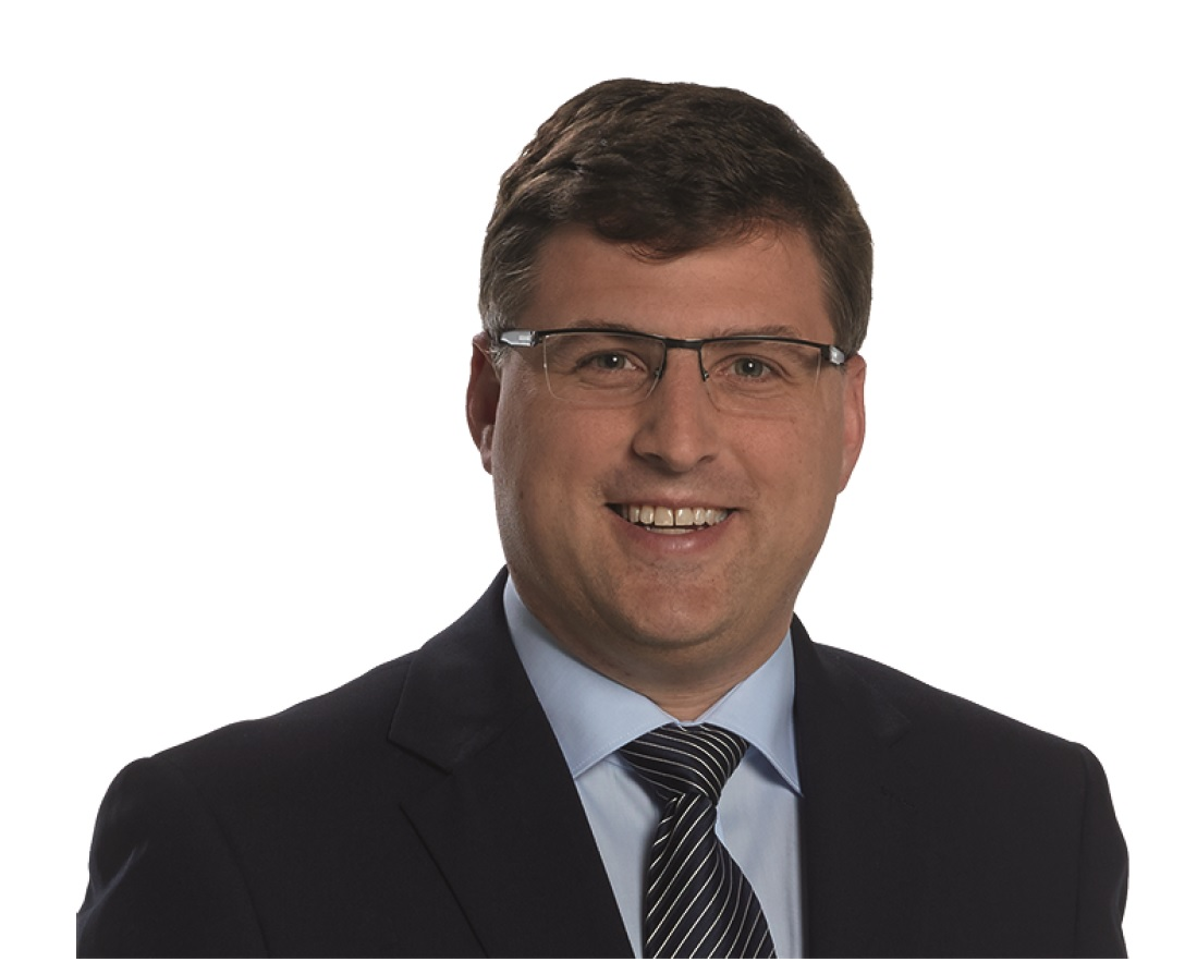 Stefan Löwl